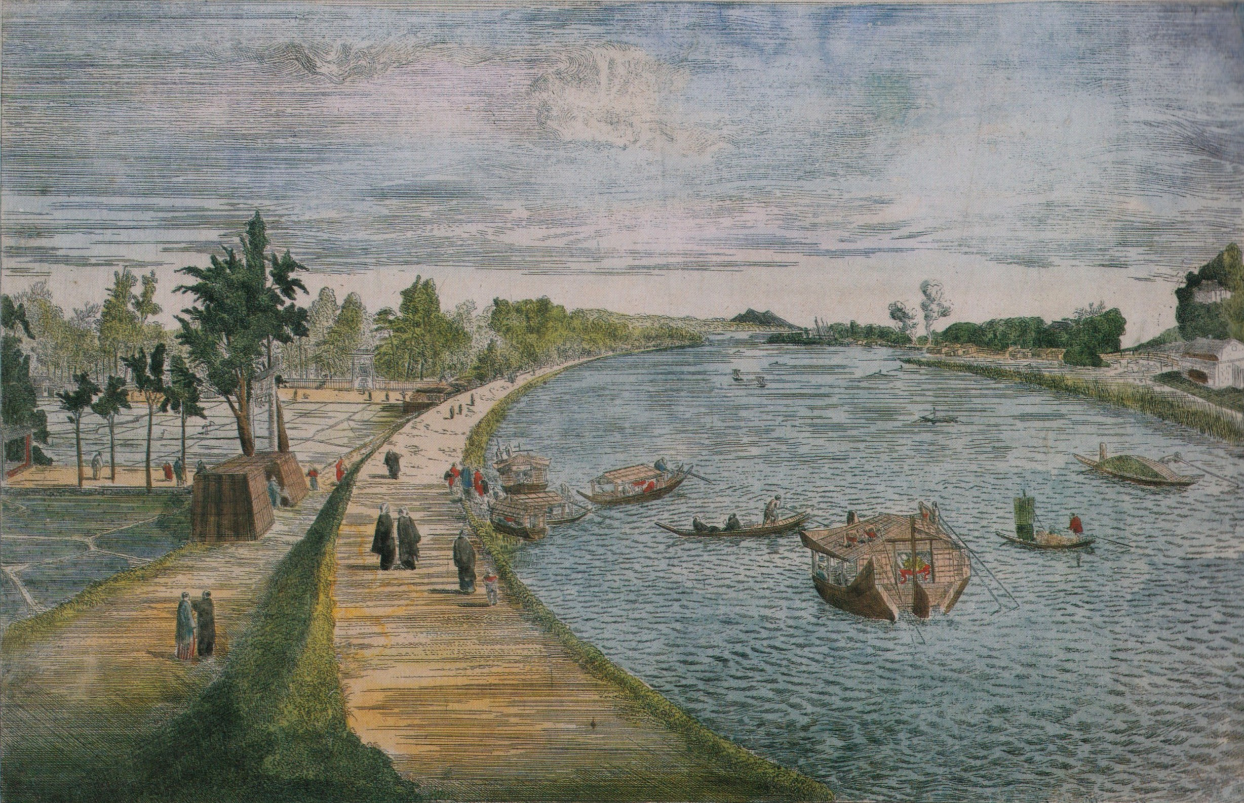 Shiba Kōkan (1747－1818). Title="Mimegurinokei"[1]. At Sumida River[1] in Edo.